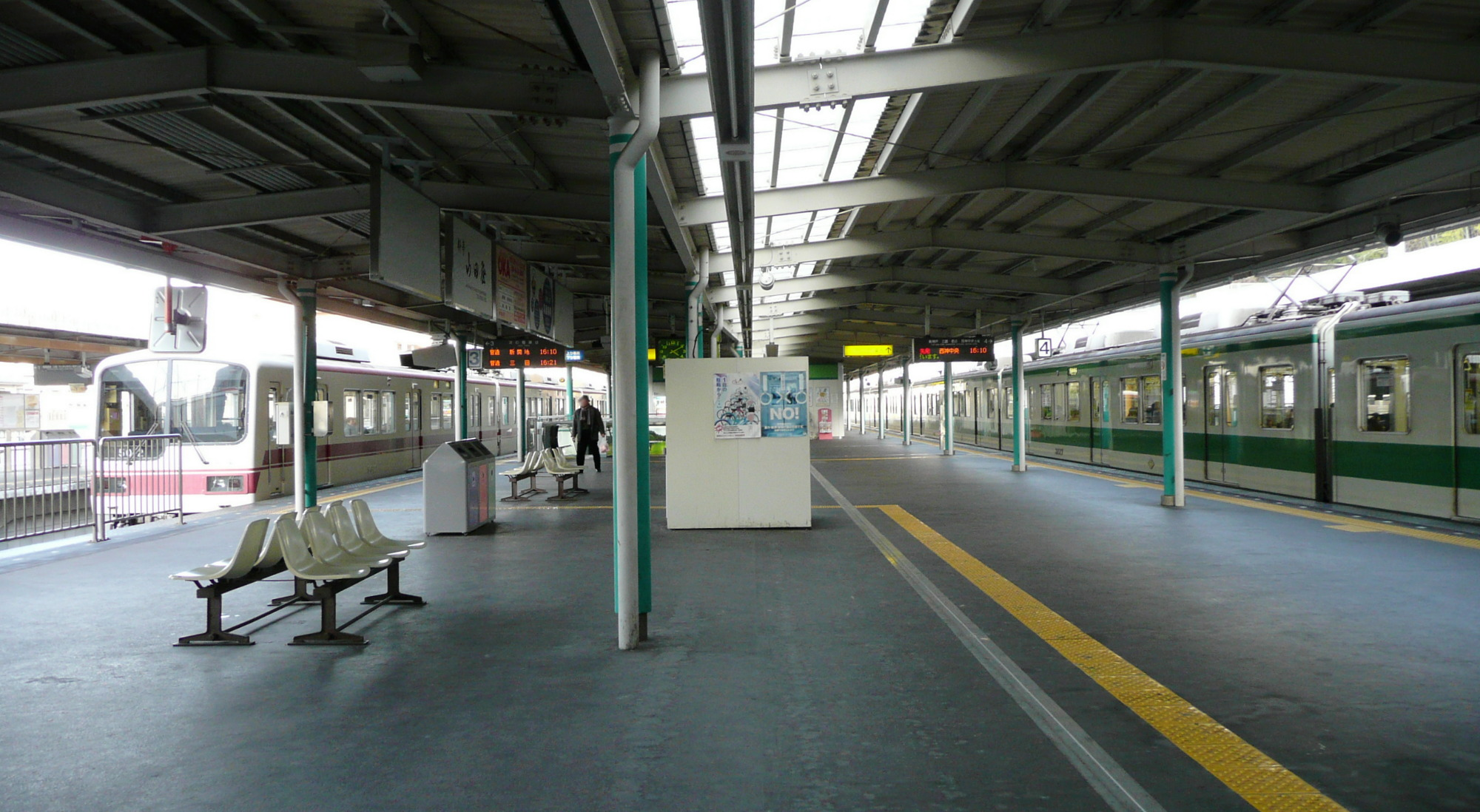 Kobe Electric Railway and Hokushin Kyuko Railway Tanigami Station platforms 3 and 4